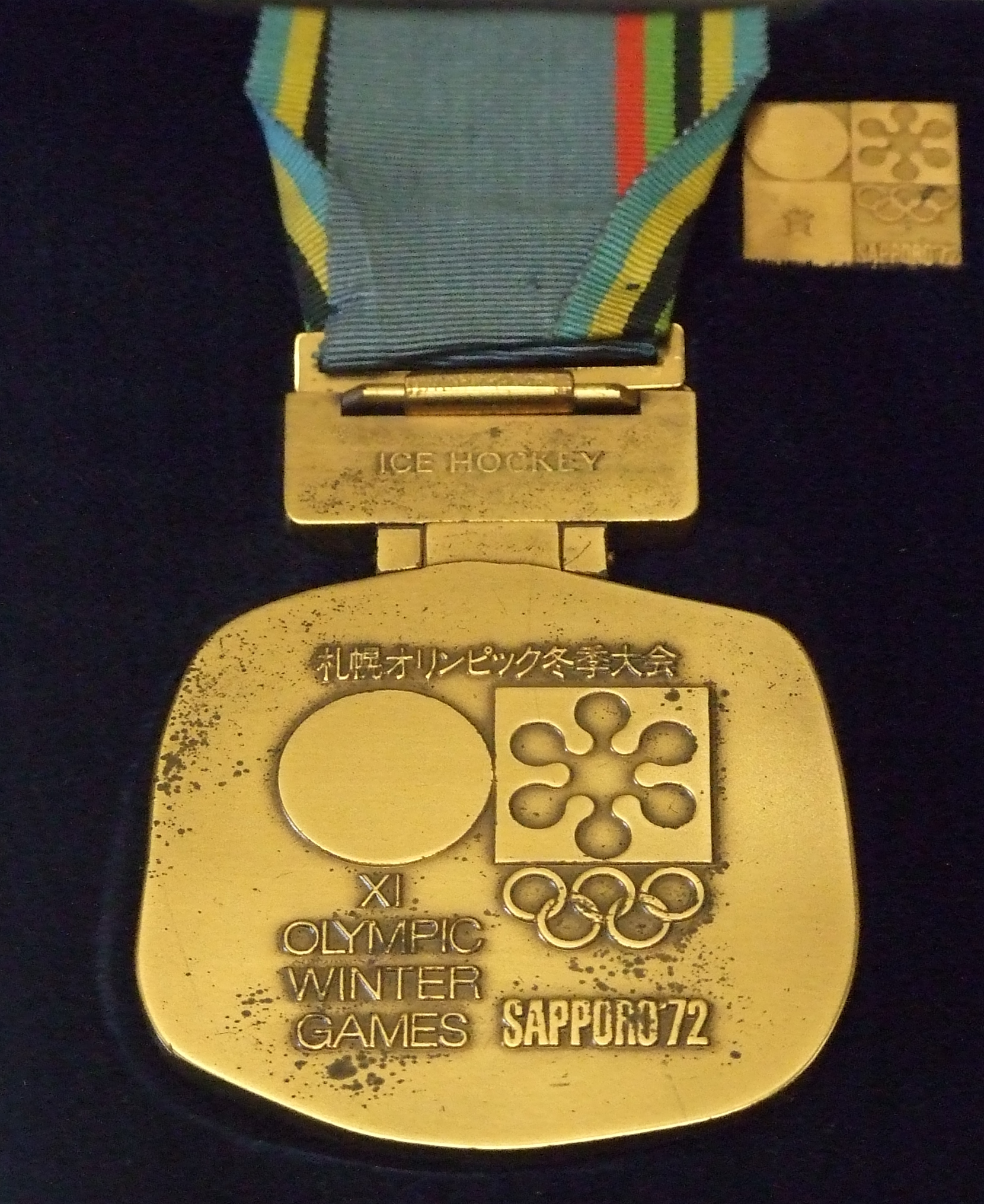 One Century Of Czech Ice Hockey Exhibition, National Museum in Prague: [1]